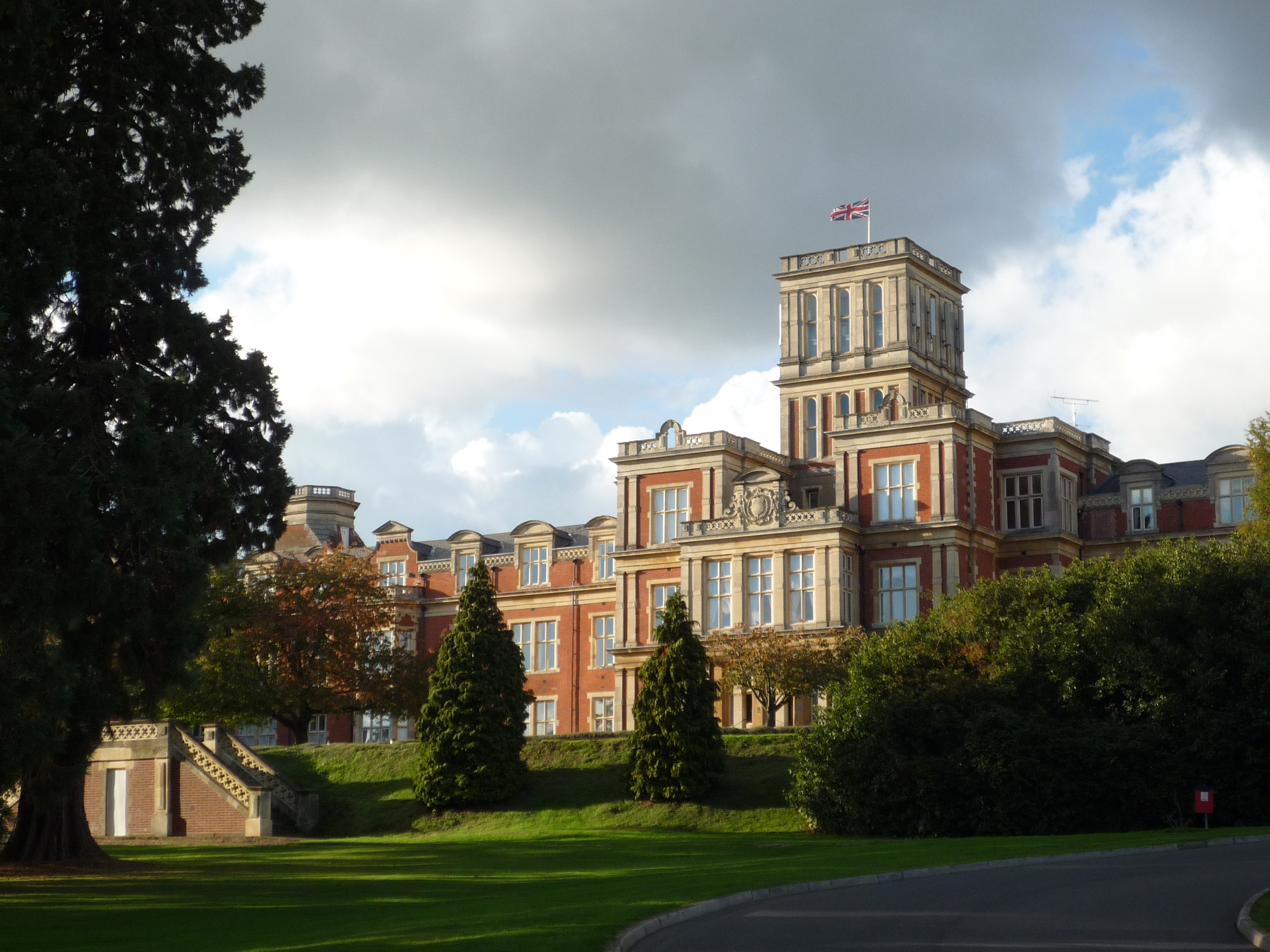 The Royal Earlswood Hospital (now a residential development called Royal Earlswood Park) in Redhill, Surrey, England. This is the main building, now called Victoria Court. It has a grade II listing.